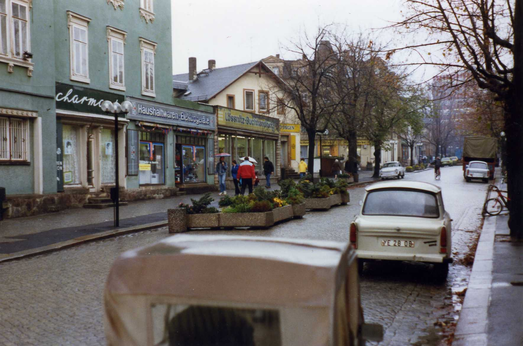 A charming cobbled shopping street, with Charmant hairdressing salon, Haushaltwaren Elektrogeraete and Loessnitiz Buchhandlung. Behind the Trabant (Y registration for Bezirk Dresden) is a motorised three wheeler invalid carriage, the ubiquitous orange DUO 4/1